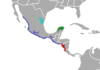 Range map for Agkistrodon bilineatus, based on a map by Campbell & Lamar (2004) and the taxonomy of McDiarmid et al. (1999) available through ITIS. Dark blue = A. b. bilineatus, red = A. b. howardgloydi, green = A. b. russeolus, light blue = A. b. taylori.